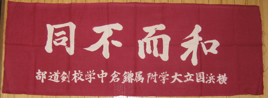 A tenugui used for kendo practice by students of a middle school in Kamakura, Kanagawa prefecture, Japan.